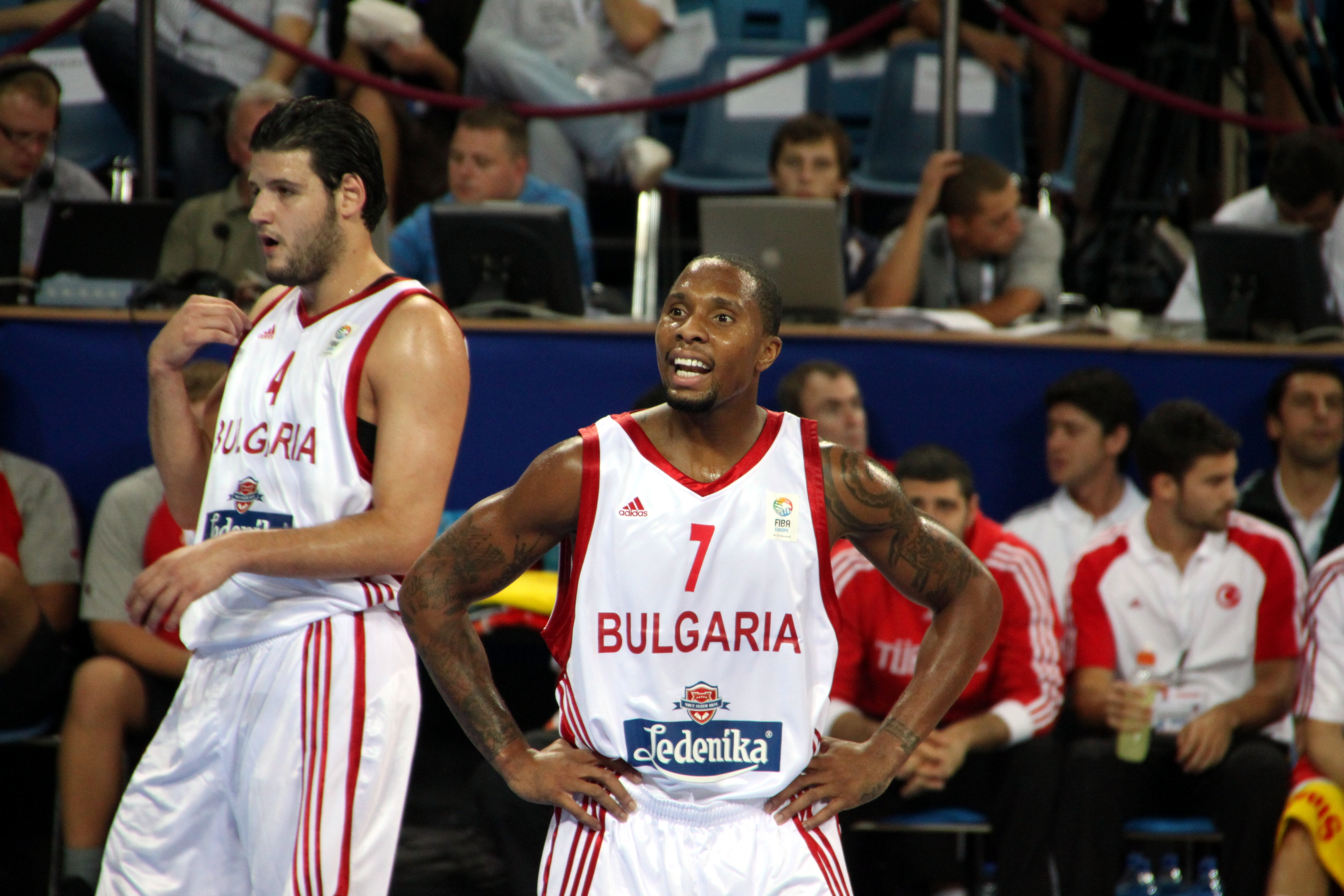 Earl Rowland (center) during EuroBasket 2009 game against Turkey.